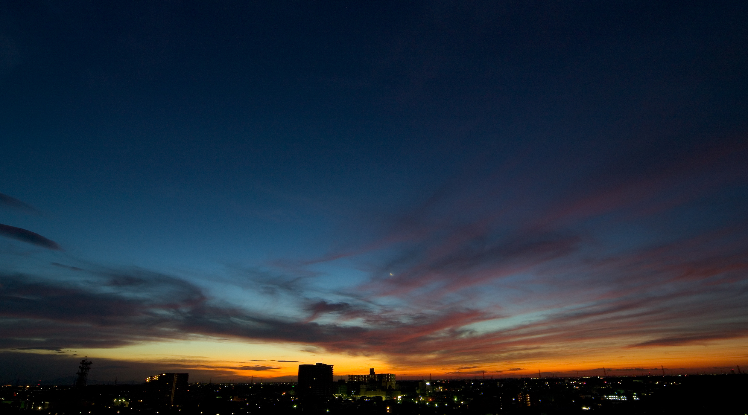 The_morning_glow at Saitama city